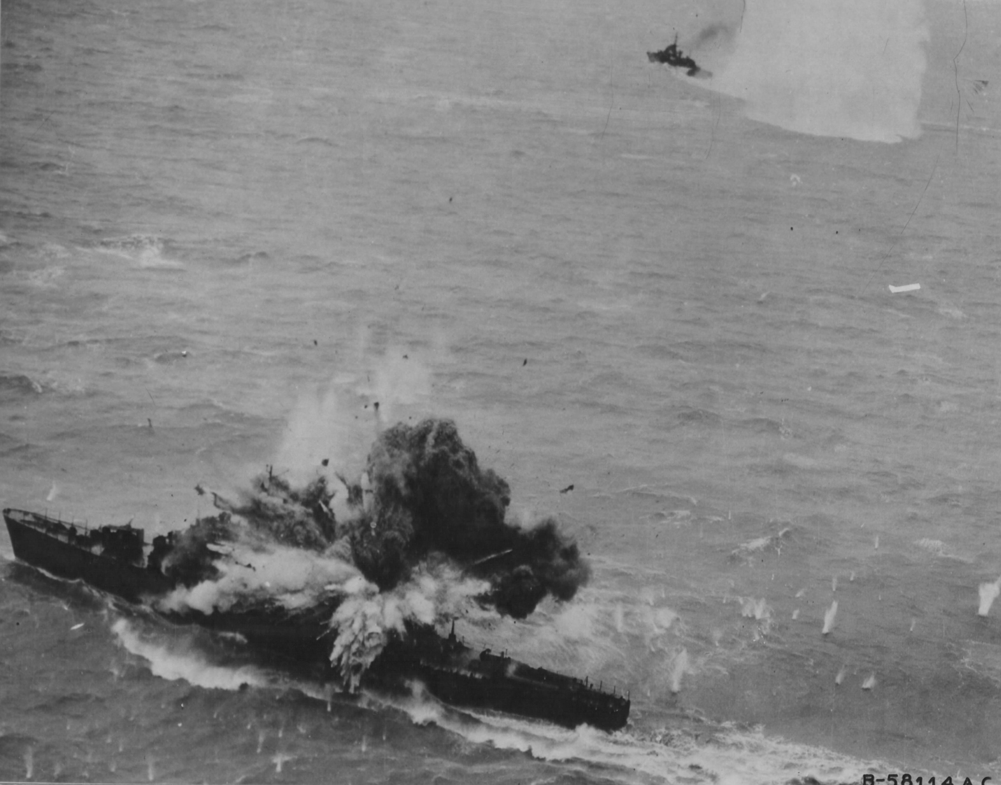 IJN escort ship No.1